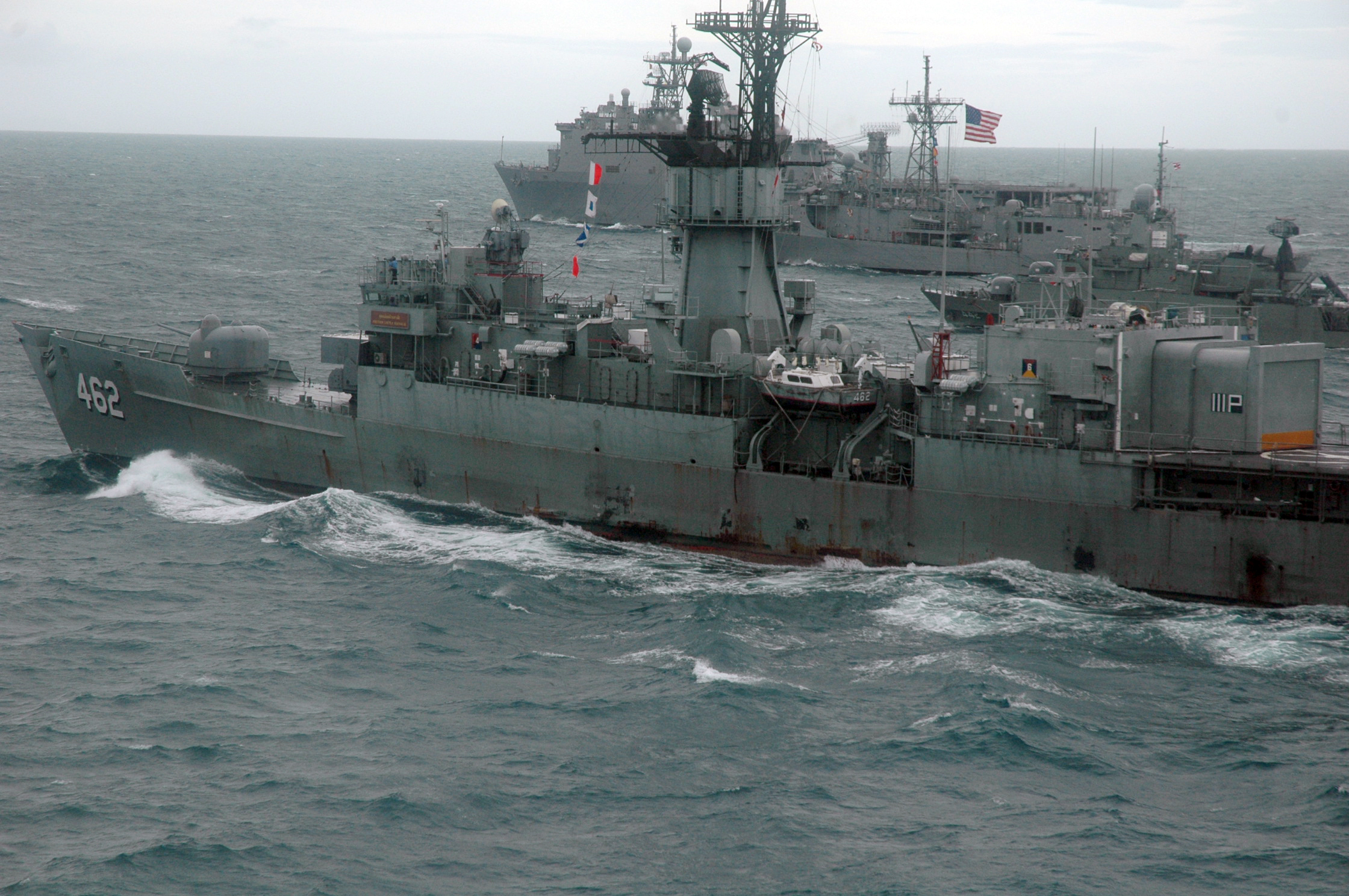 The Royal Thai Navy frigate HTMS Phutta Loetla Naphalai (FFG 462) steams in formation with U.S. Navy and other Royal Thai Navy ships participating in tactical maneuvering exercises during Cooperation Afloat Readiness and Training (CARAT) 2008.